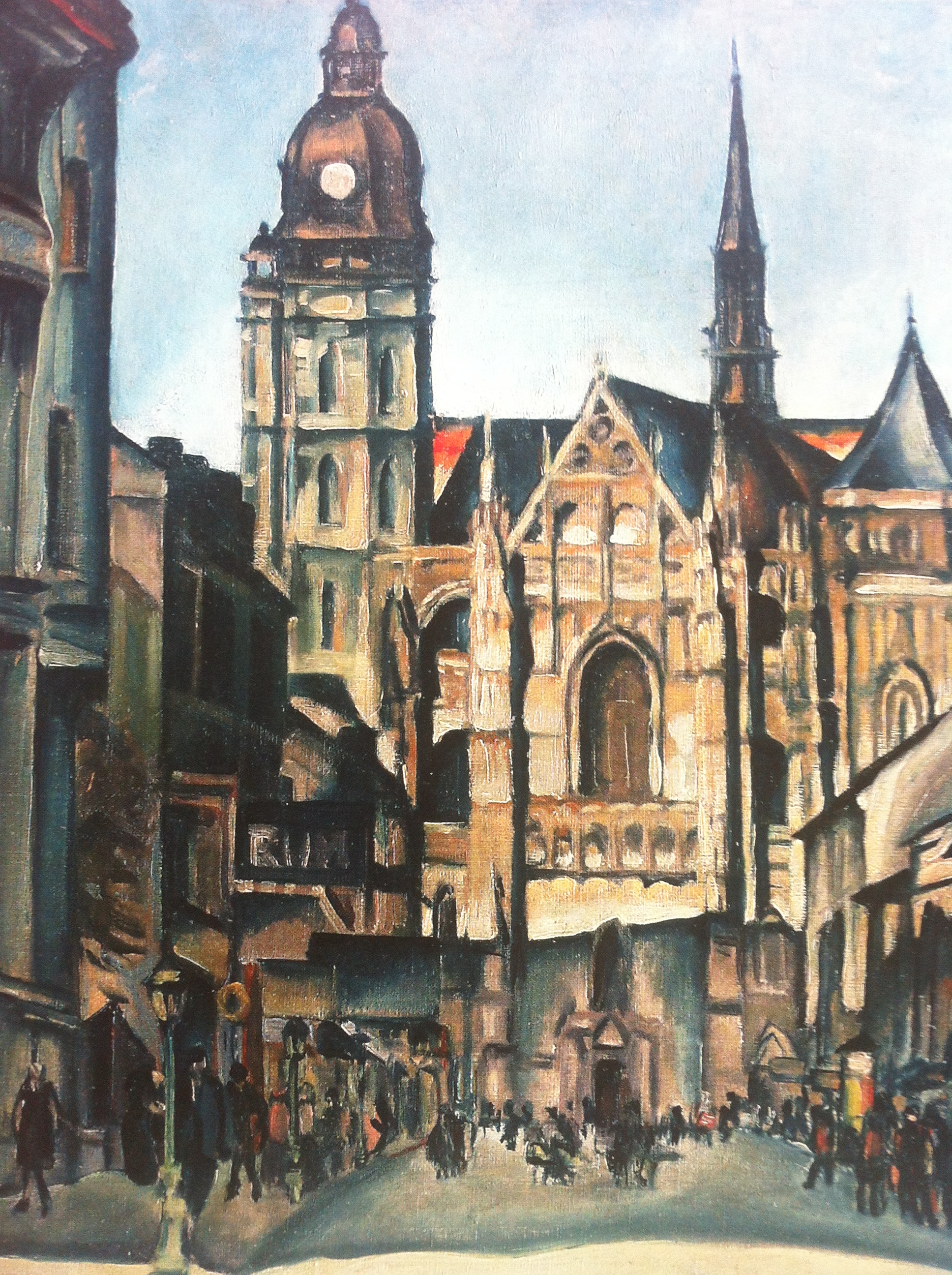 St Elisabeth Cathedral, oil, canvas, 1927 Konštantín Bauer